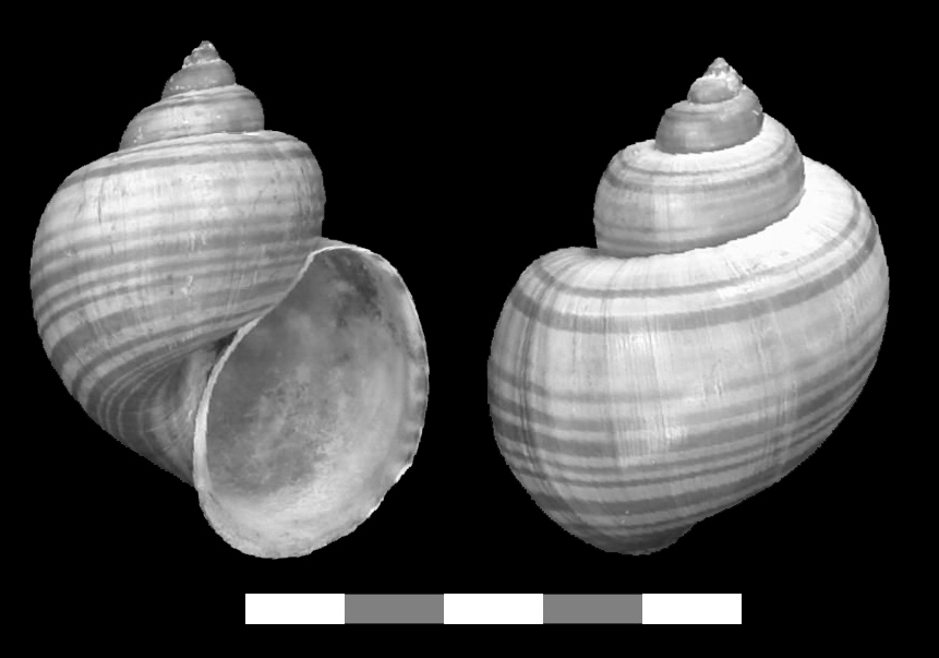 photo of shell of Pomacea diffusa. Scale Bar: 5 cm.